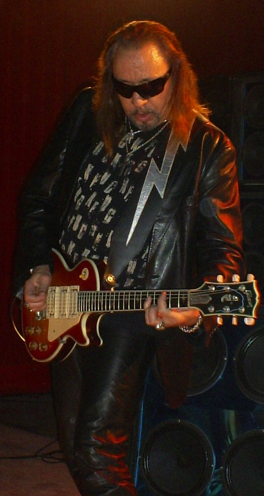 Ace Frehley, former guitarrist of Kiss.